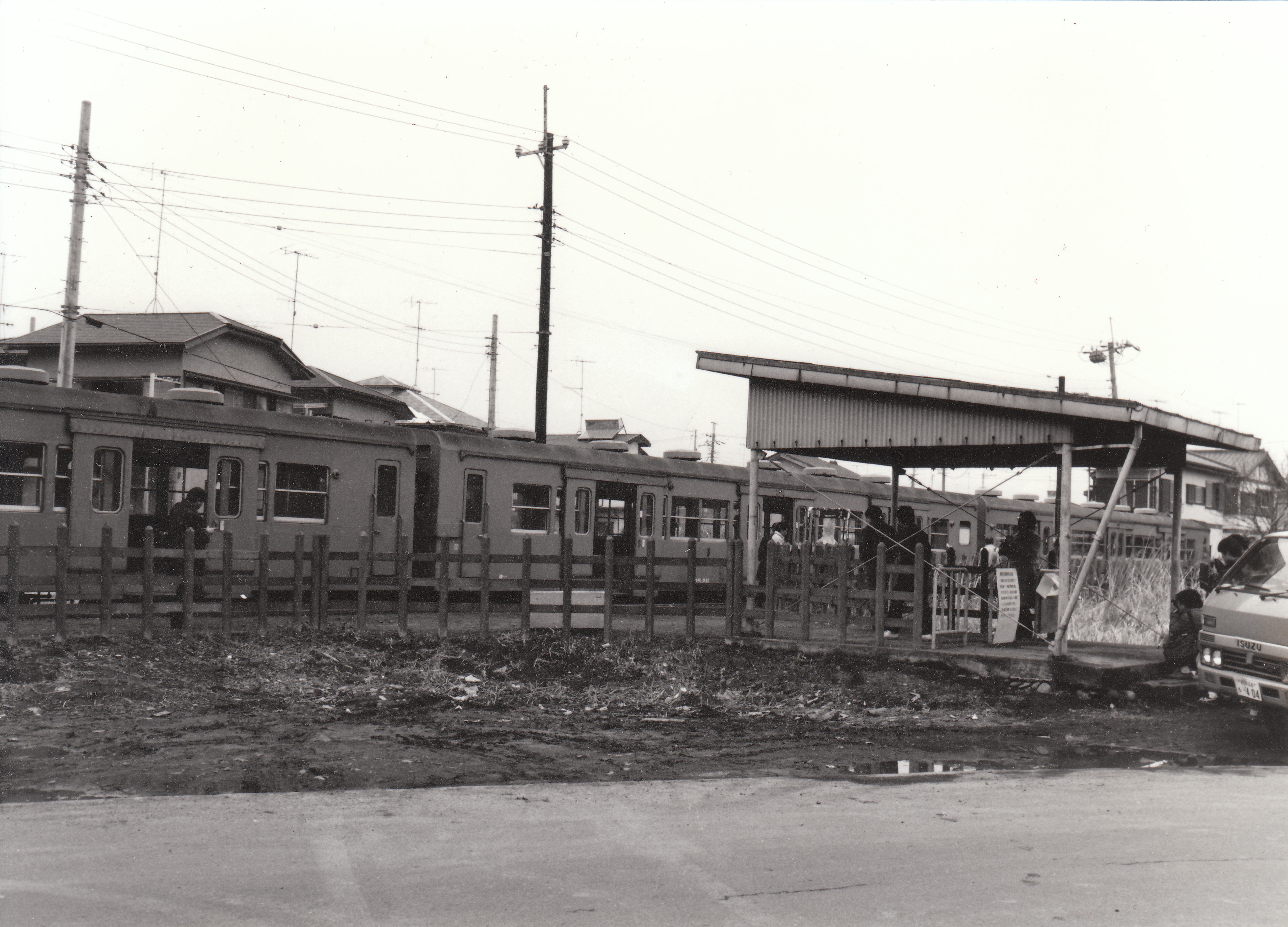 Nishi-Samukawa Station on Japan National Railway Sagami Line. Taken on 24 March 1984, a week prior to its abolition